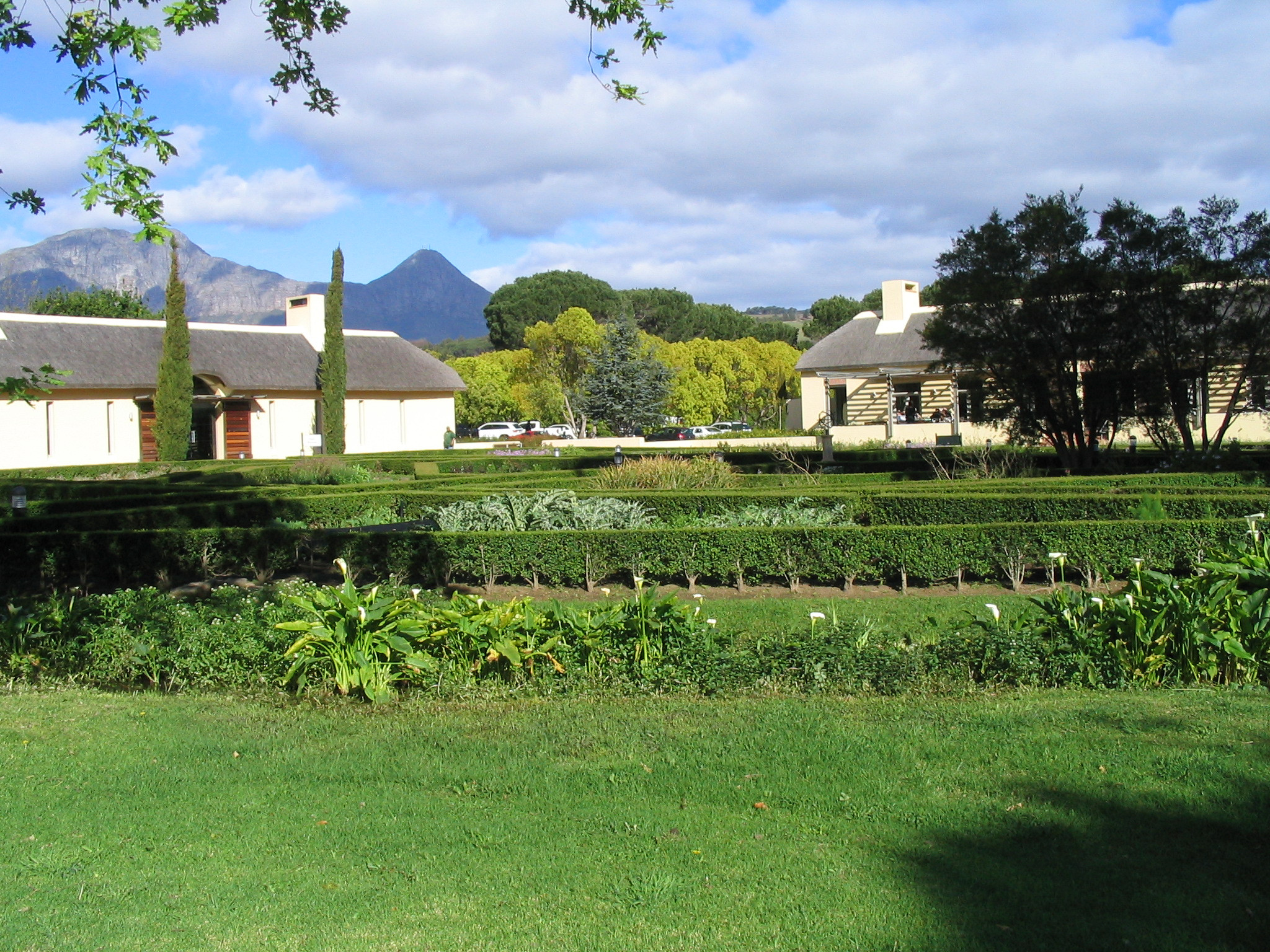 Vergelegen herb garden with Stables restaurant behind on the left and wine tasting centre behind on the right